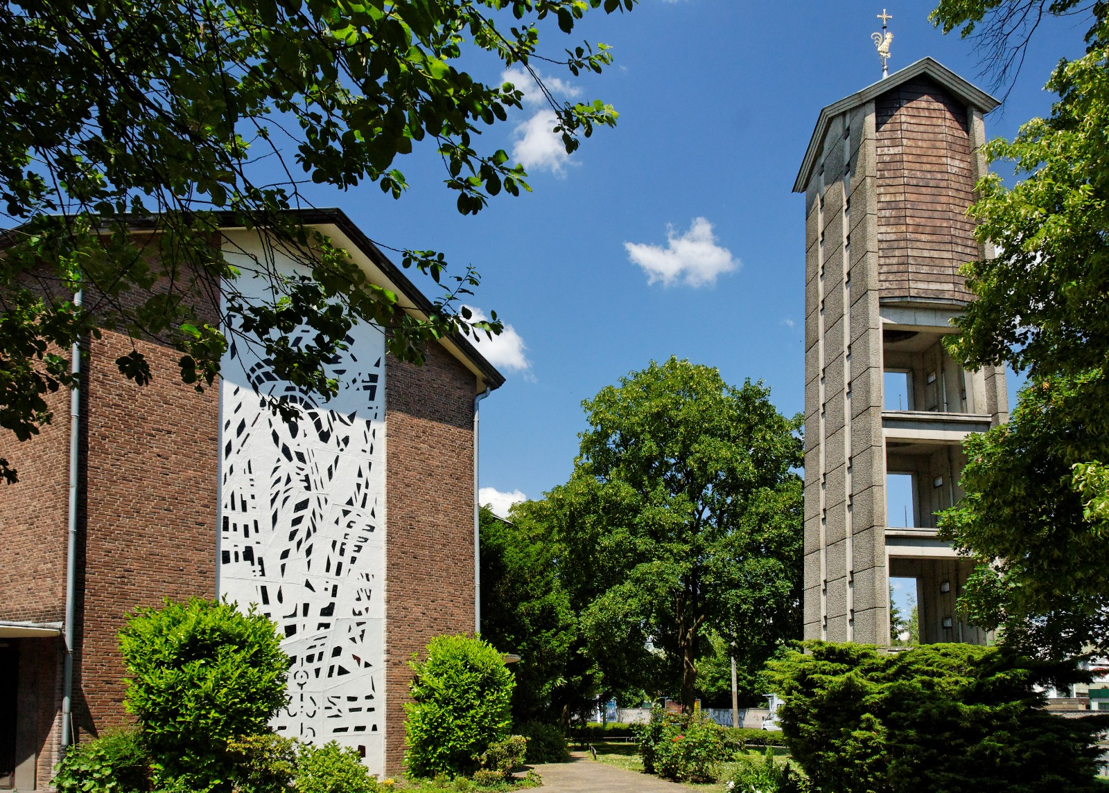 Saint Lucas Church in Düsseldorf-Derendorf, Germany